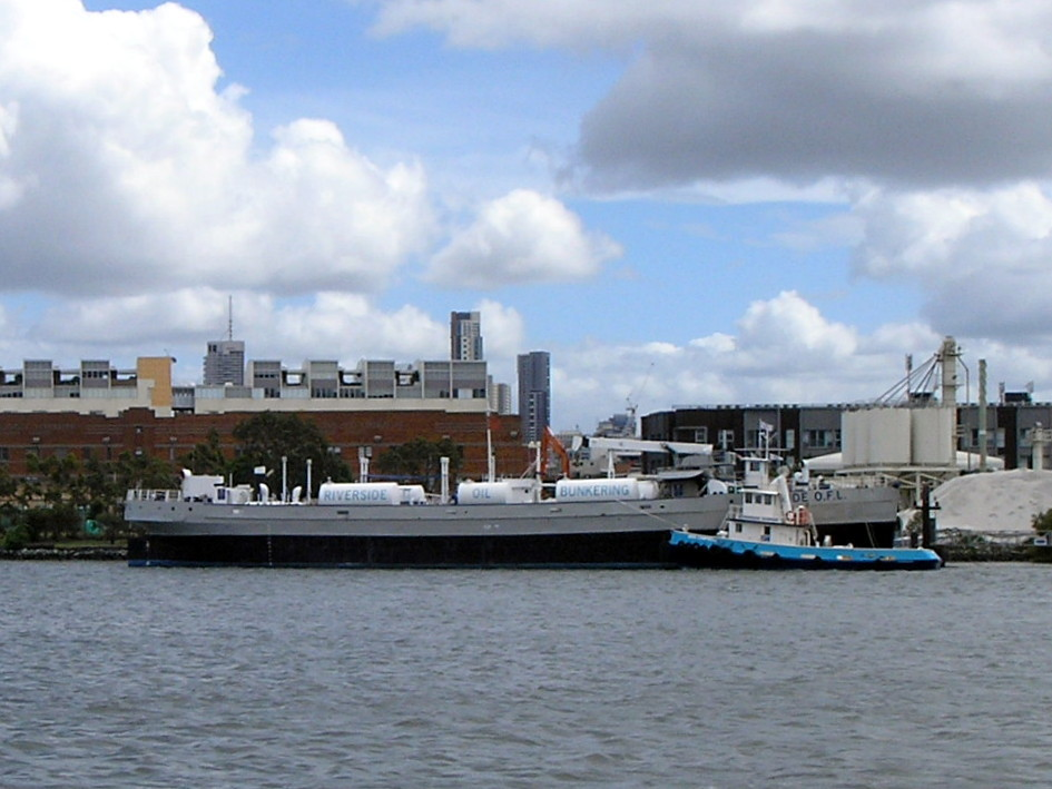 The oil fuel lighter Riverside OFL on the Brisbane River in March 2008, probably at Newstead. This ship was originally built for the Royal Australian Navy in the Second World War as OFL 1206 and was operated by Riverside Marine from 1964 until 2009. A small tugboat is alongside Riverside OFL.